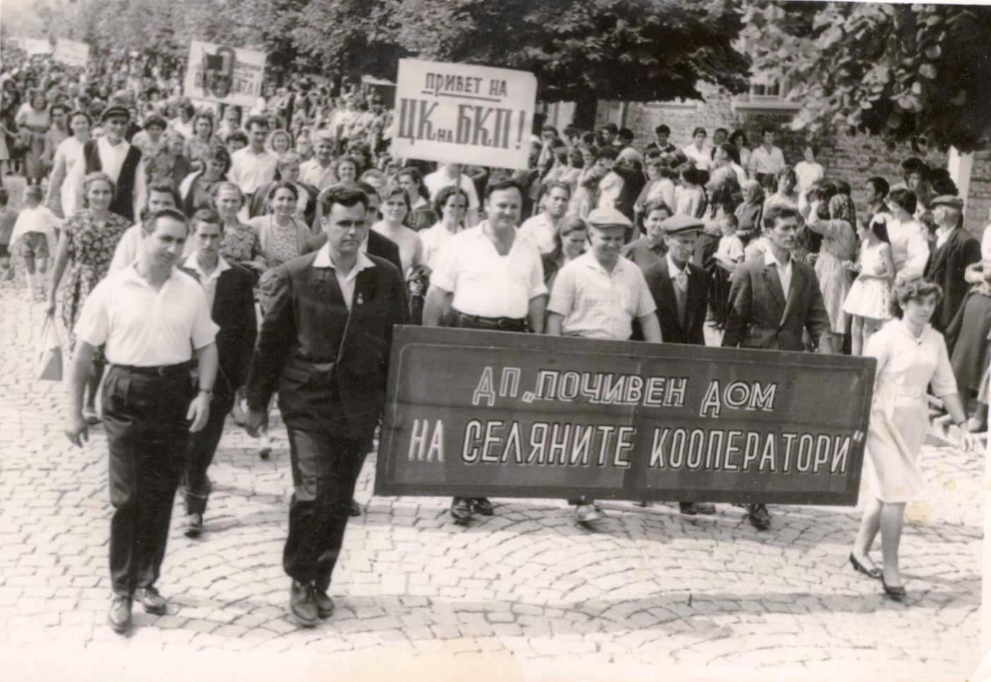 A manifestation of the bulgarian Agricultural Unions of Cooperative Labour.